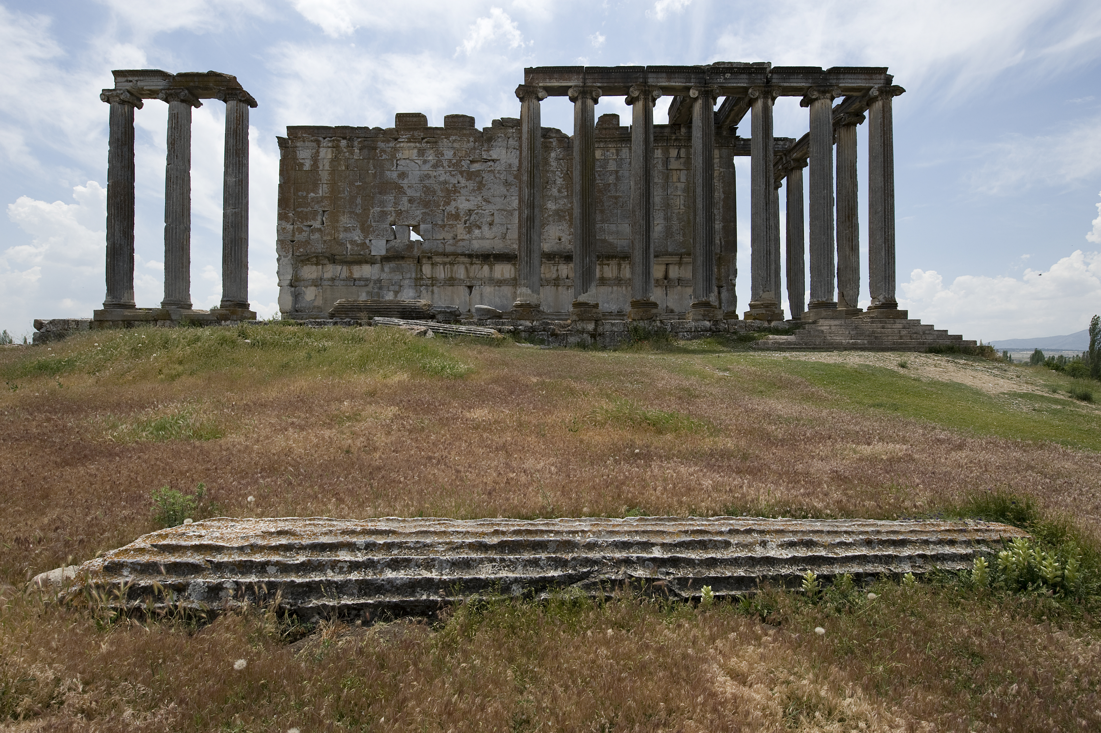 One of a series of pictures taken to show the exterior of the Zeus Temple in Azanoi.